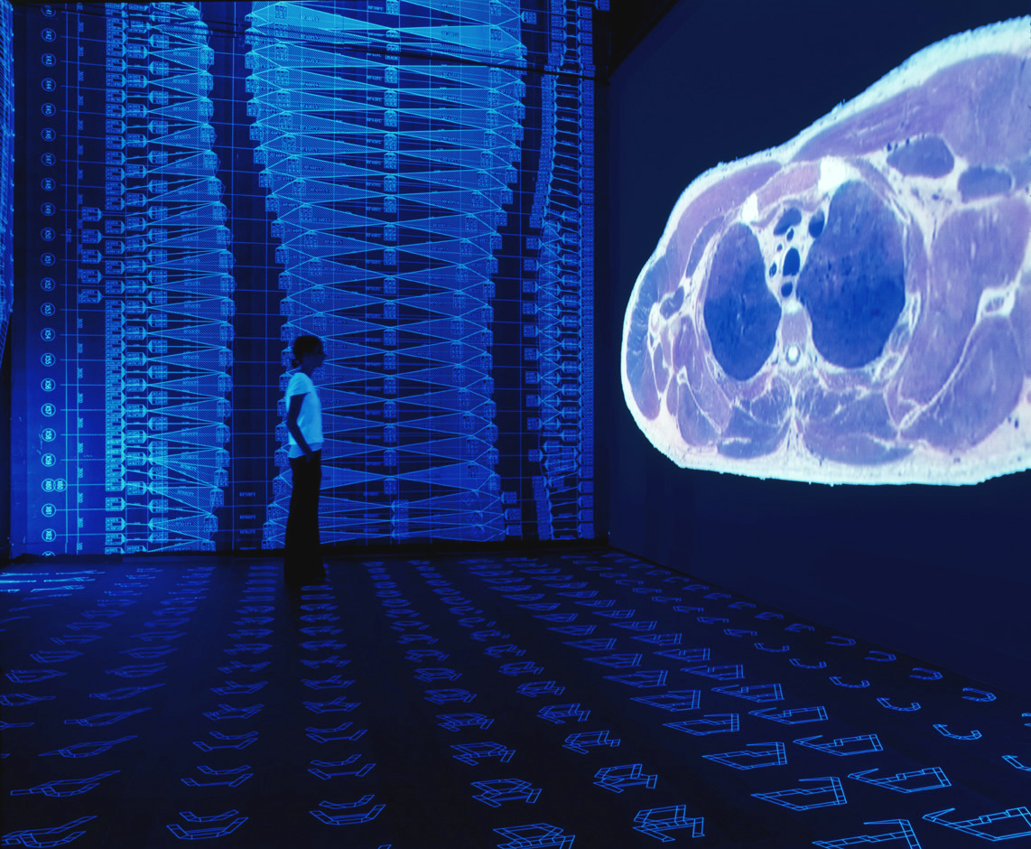 British Pavilion at Venice Biennale by FOA